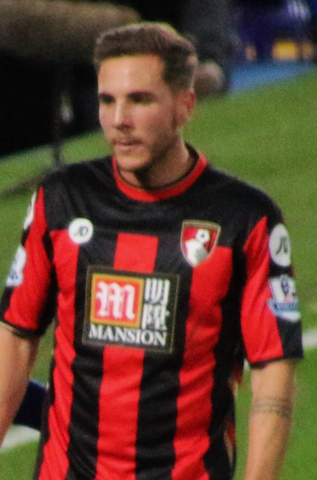 Dan Gosling